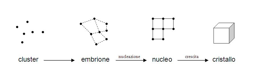 Crystallization process dynamics.